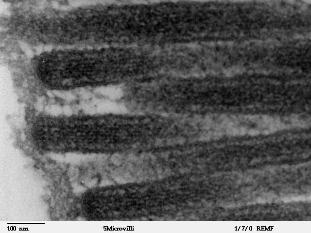 Transmission electron microscope image of a thin section cut through a human jejunum(segment of small intestine) epithelial cell. This high magnification image of MV1 Image shows some of the densely packed microvilli that make up the striated border. Each microvillus is approximately 1um long by 0.1um in diameter and contains a core of actin microfilaments. JEOL 100CX TEM